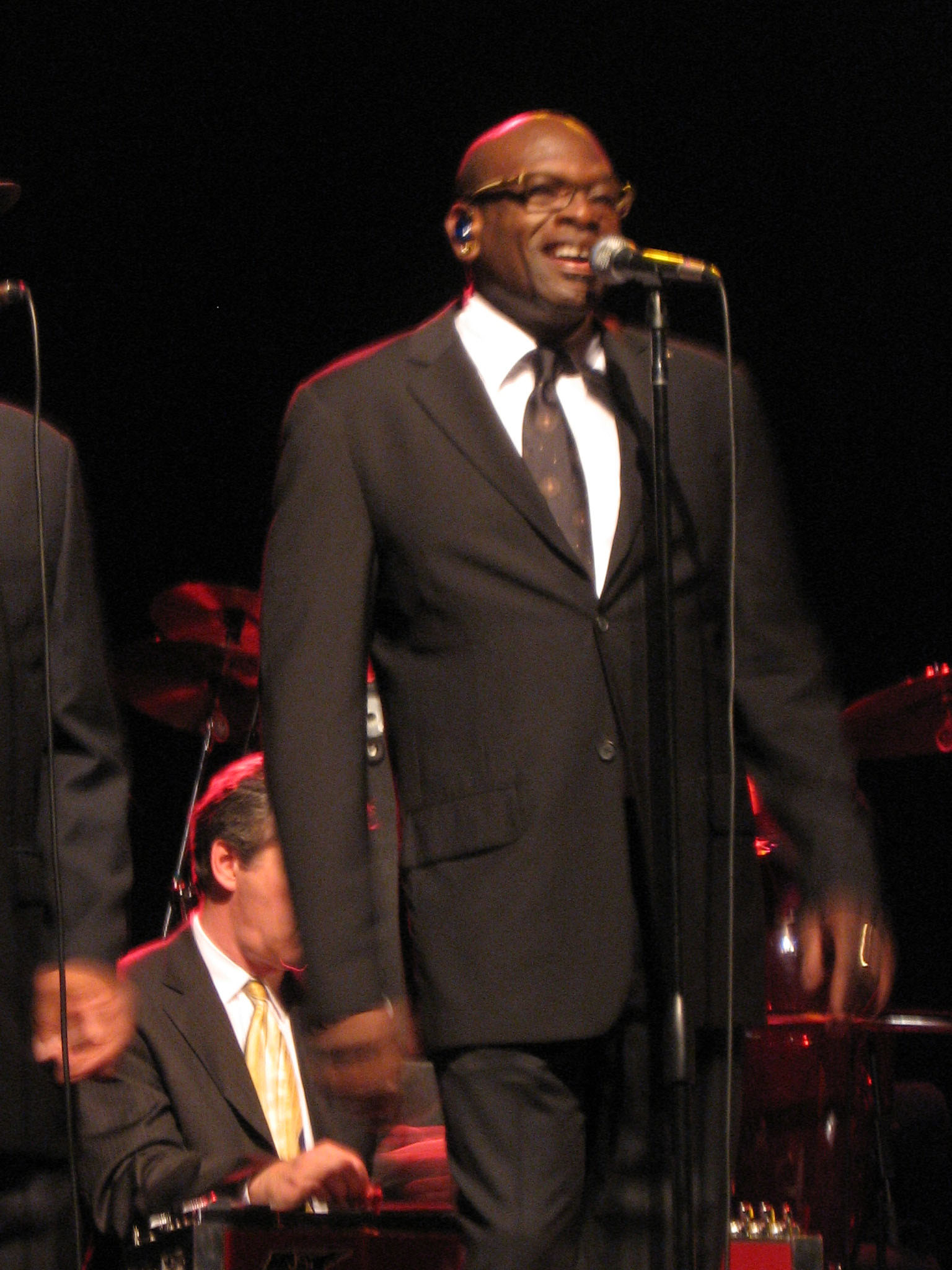 Arnold McCuller with Lyle Lovett & His Large Band live at the Orpheum Theatre. Los Angeles, California, August 3 2008. The photographer had just seen McCuller singing with James Taylor the week before. In fact, Taylor's band is the one that McCuller is on tour with.